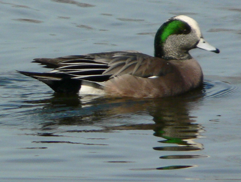 American Wigeon